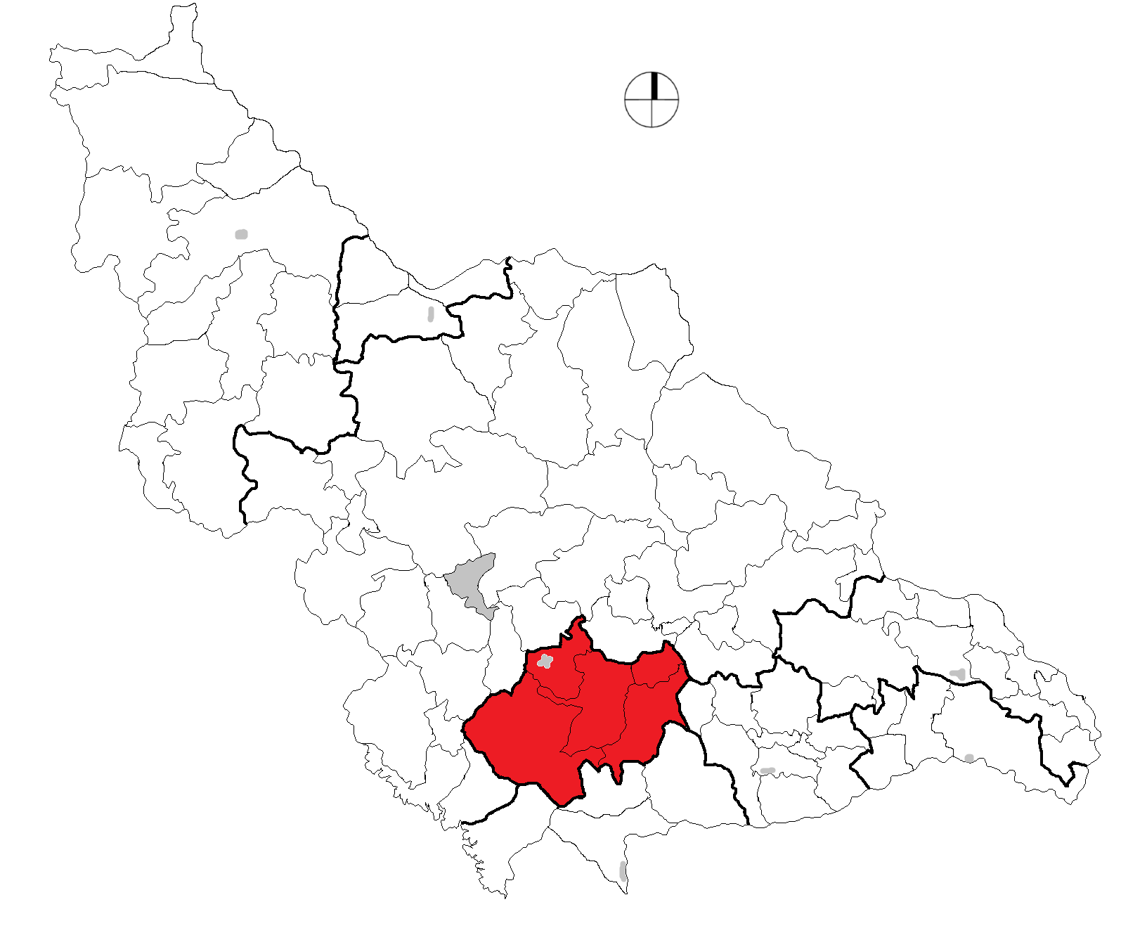 Mapa de Hoyorrico en Santa Rosa de Osos